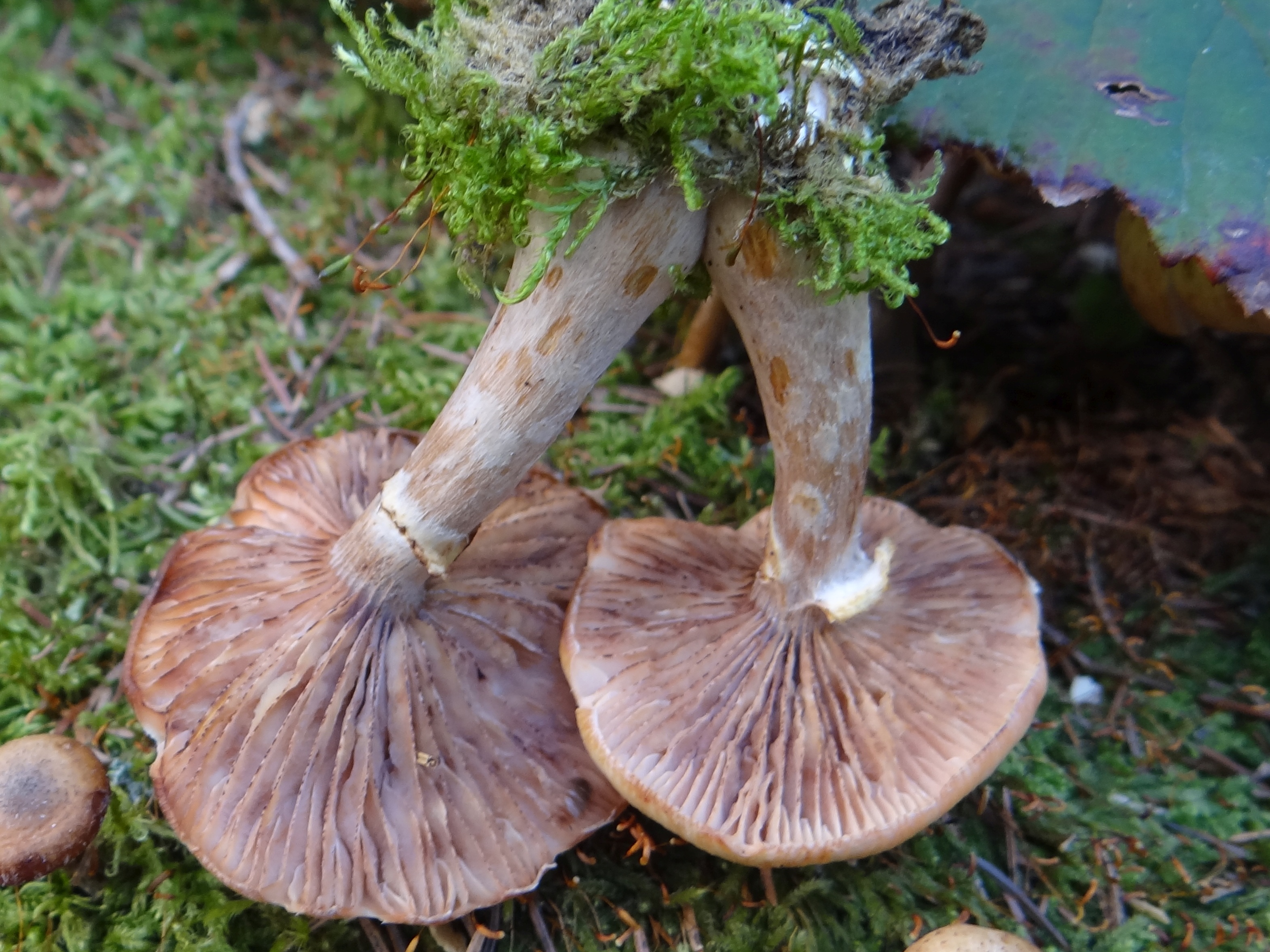 Armillaria gallica (location:Poland, Gorce, Gorc)